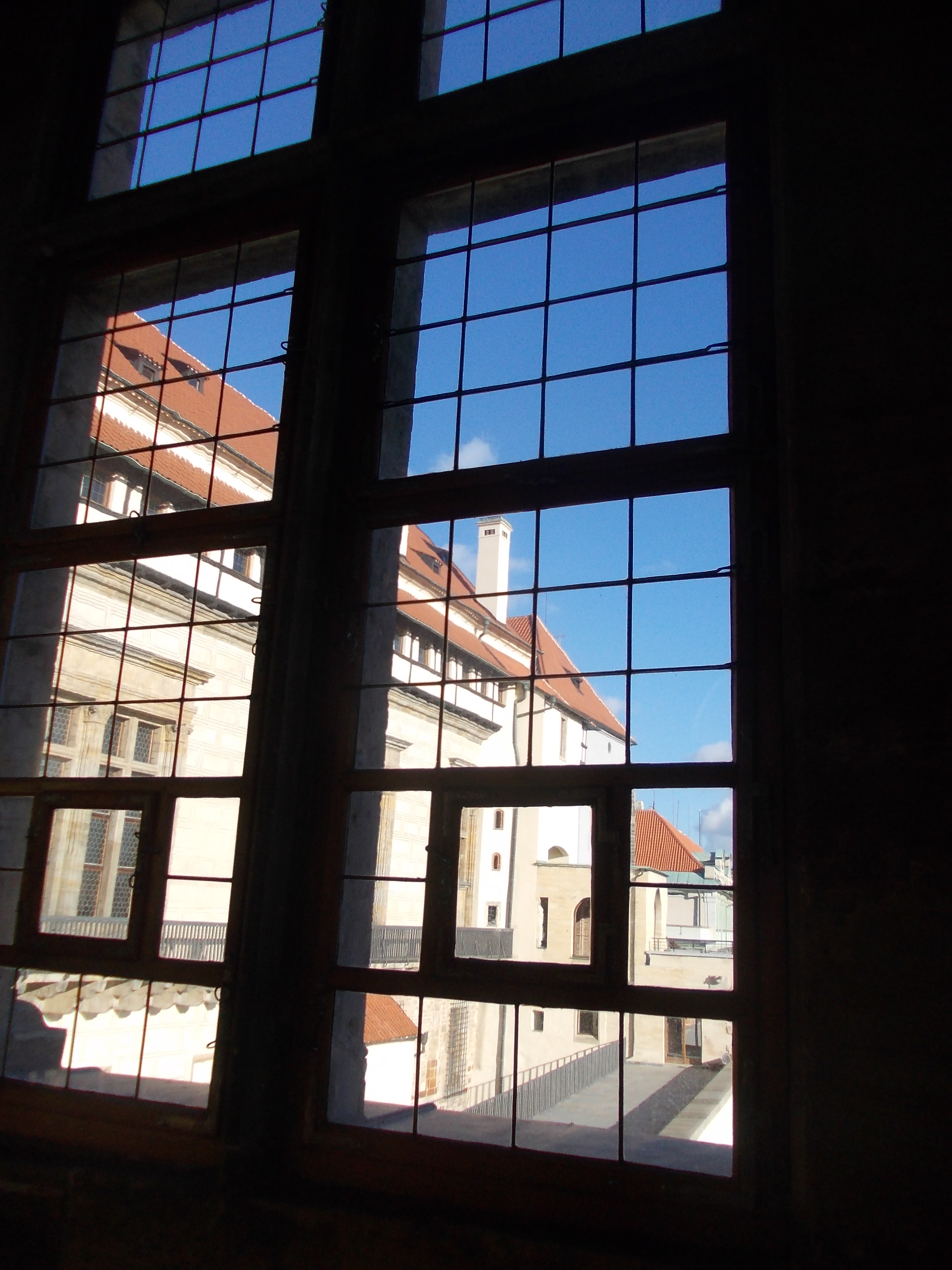 The defenestration window at the Prague Castle